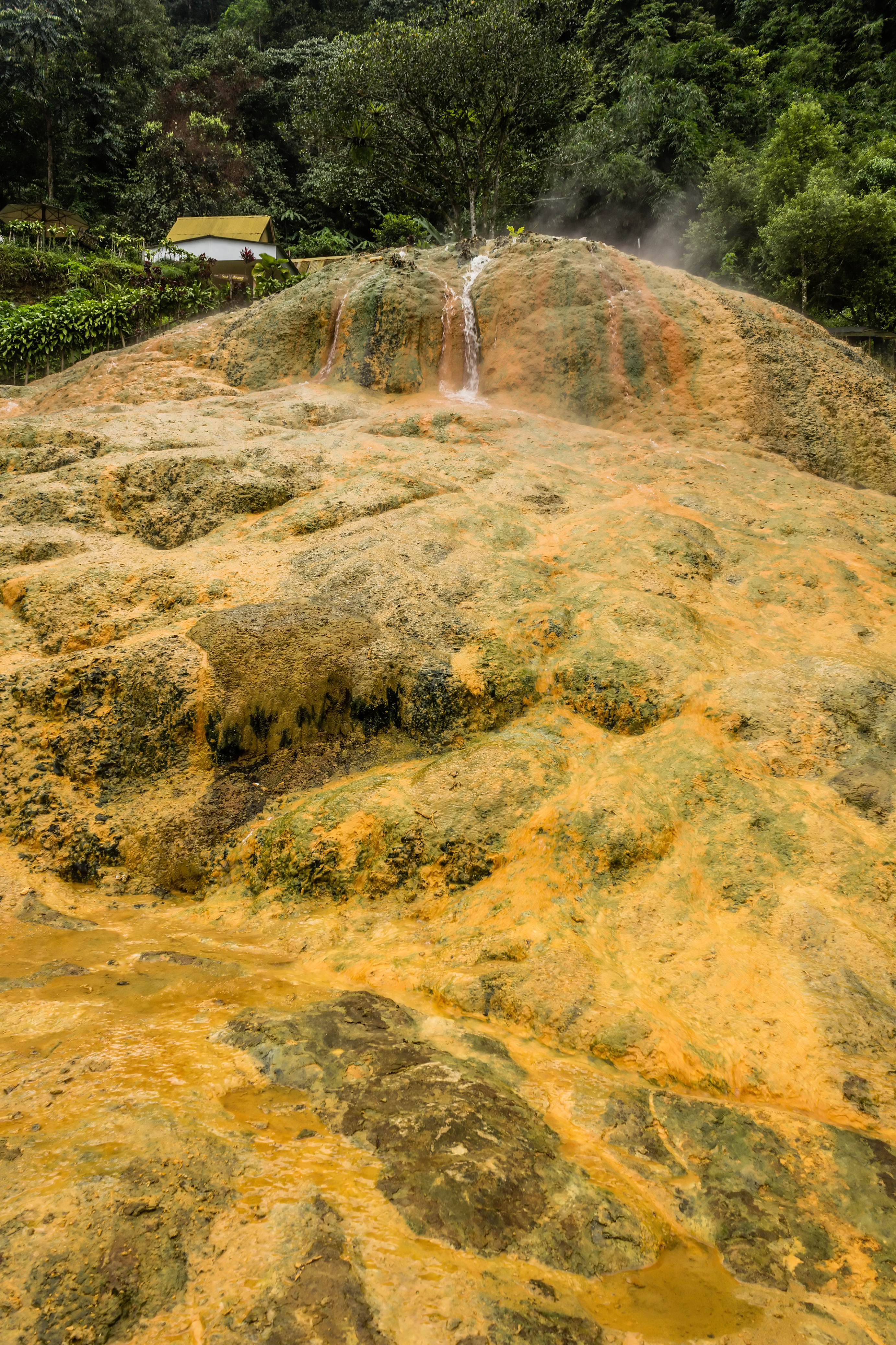 Mineral deposits from Pancuran Tujuh, near Baturraden, Purwokerto 2015-03-23